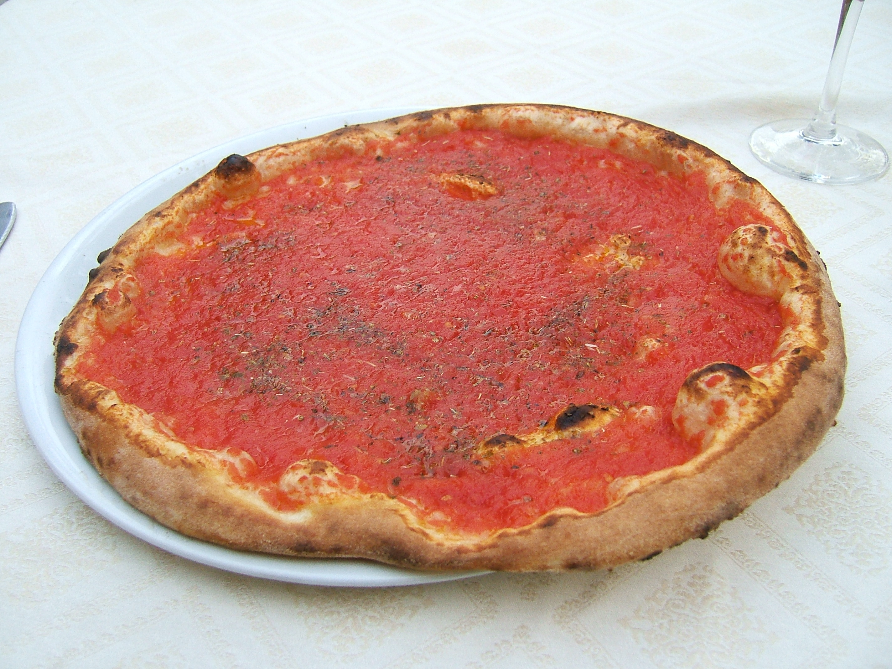 The simplest, original and best of pizzas: pizza marinara